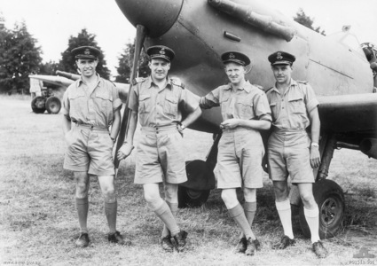 IWM caption : RICHMOND, NSW. 1942. MEMBERS OF NO. 54 SQUADRON, RAF. LEFT TO RIGHT: FLIGHT LIEUTENANT R. W. (BOB) FOSTER SQUADRON LEADER E. M. (BILL) GIBBS FLYING OFFICER (FO) J. ANTHONY (TONY) TUCKSON FO JOHN LENEGAN